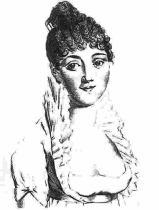 Portrait of Helmina von Chézy